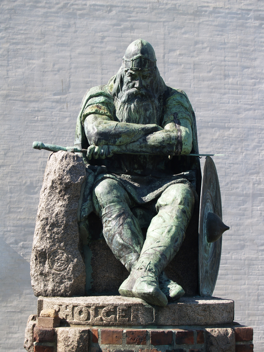 Statue of the hero Holger Danske at Hotel Marienlyst, Denmark